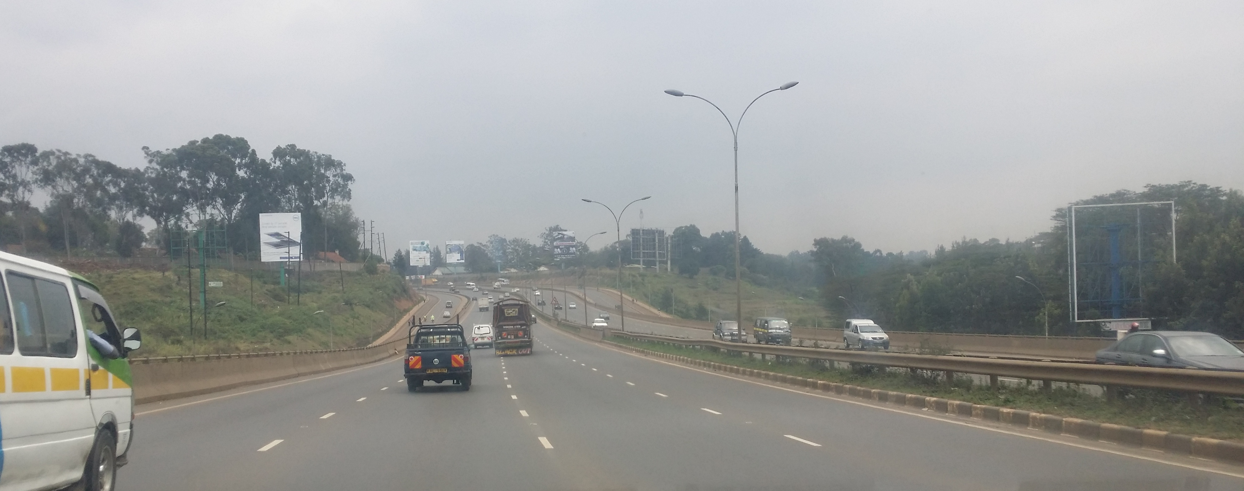 The S2, Kenya